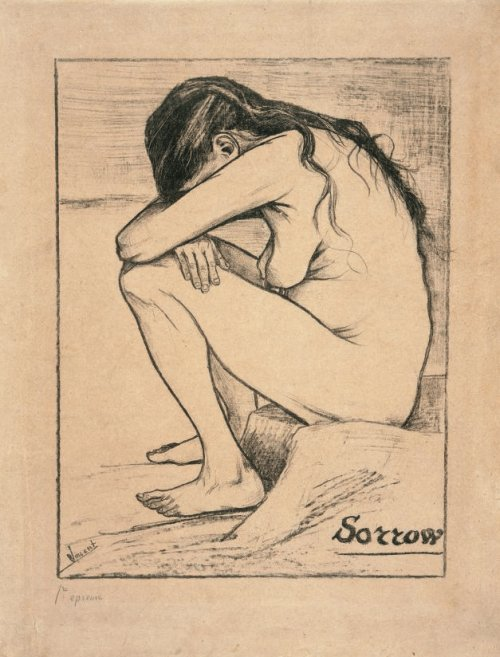 Impressions (De La Faille) I Van Gogh Museum, F 1655/I, annotated by Vincent: épreuve d'essai II The Museum of Modern Art, New York, annotated by Vincent: épreuve d'essai III Van Gogh Museum, F 1655/III, annotated by Vincent: Ire épreuve